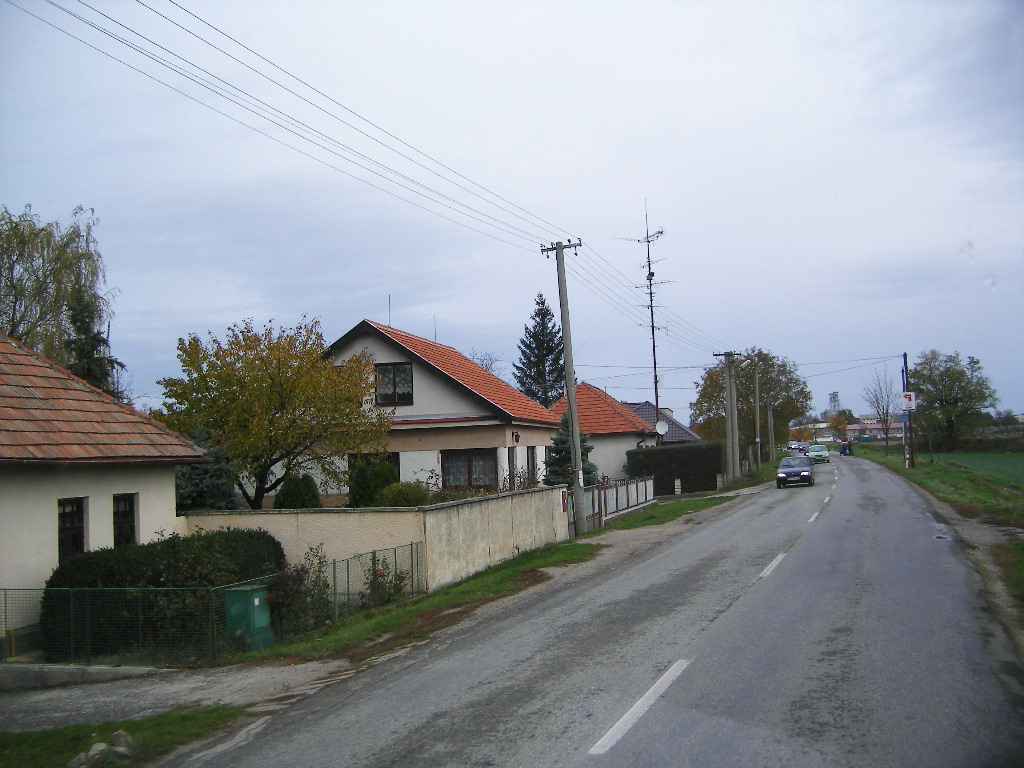 Nitrianska Streda